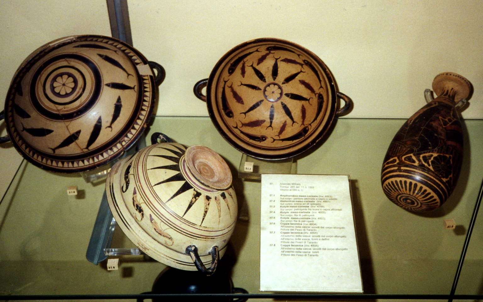 Pottery from the time of about 580 b.c. from the National Museum Of Archeology in Taranto, Italy